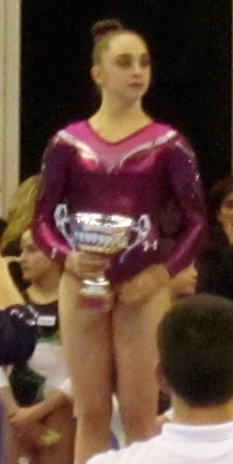 Podium at Jesolo Trophy 2014: 1.Kyla Ross (58.000), 2. Peyton Ernst (57.650), 3. Maggie Nichols (57.450)